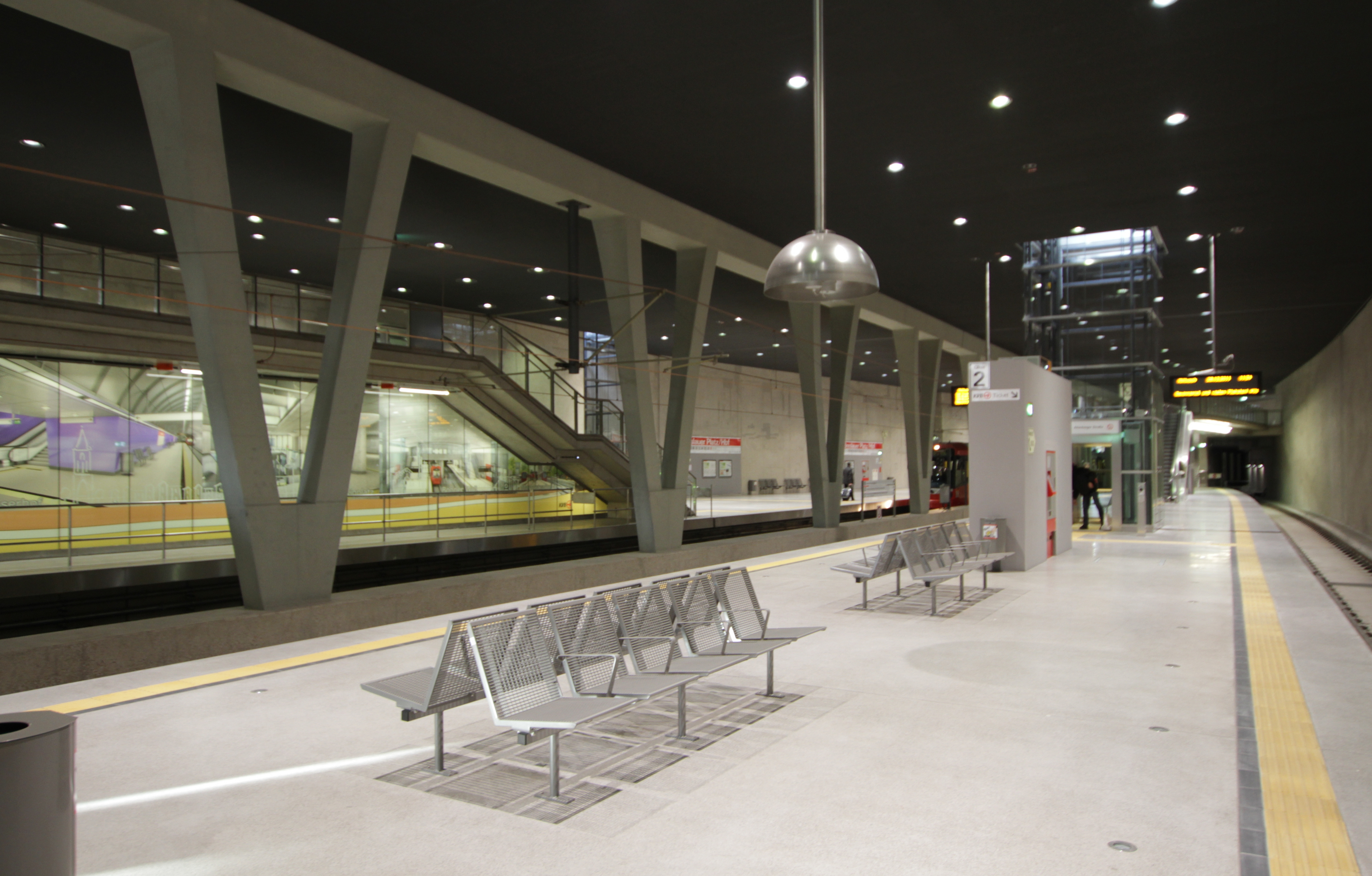 Subway station Breslauer Platz/Hauptbahnhof in Cologne